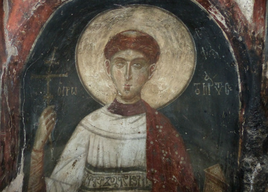 Saint Nicholas of Tzotzas Church Fresco 01